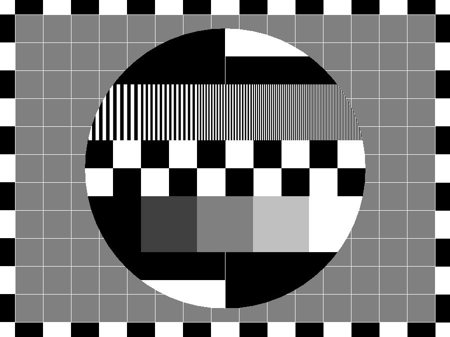 Philips PM5540 electronic test card - a monochrome forerunner to the PM5544. Used in Holland and Israel to name but two.